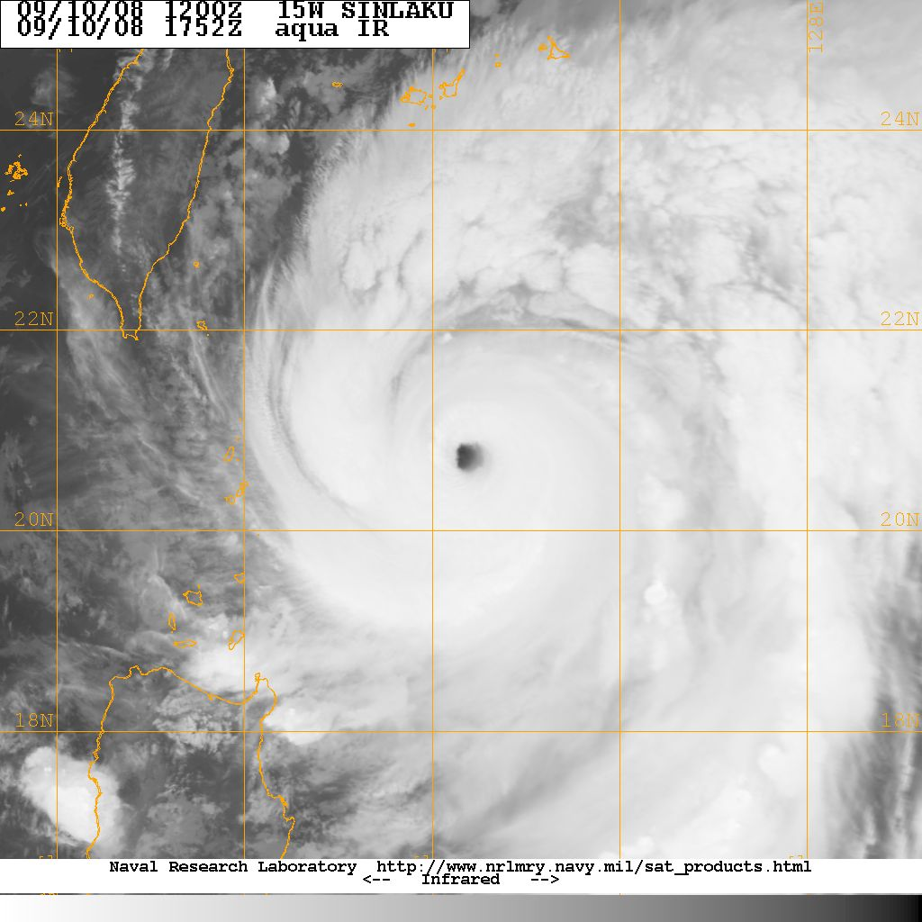 Typhoon Sinlaku (Marce) as seen by the Aqua satellite on September 10, 2008 at 1752 UTC.